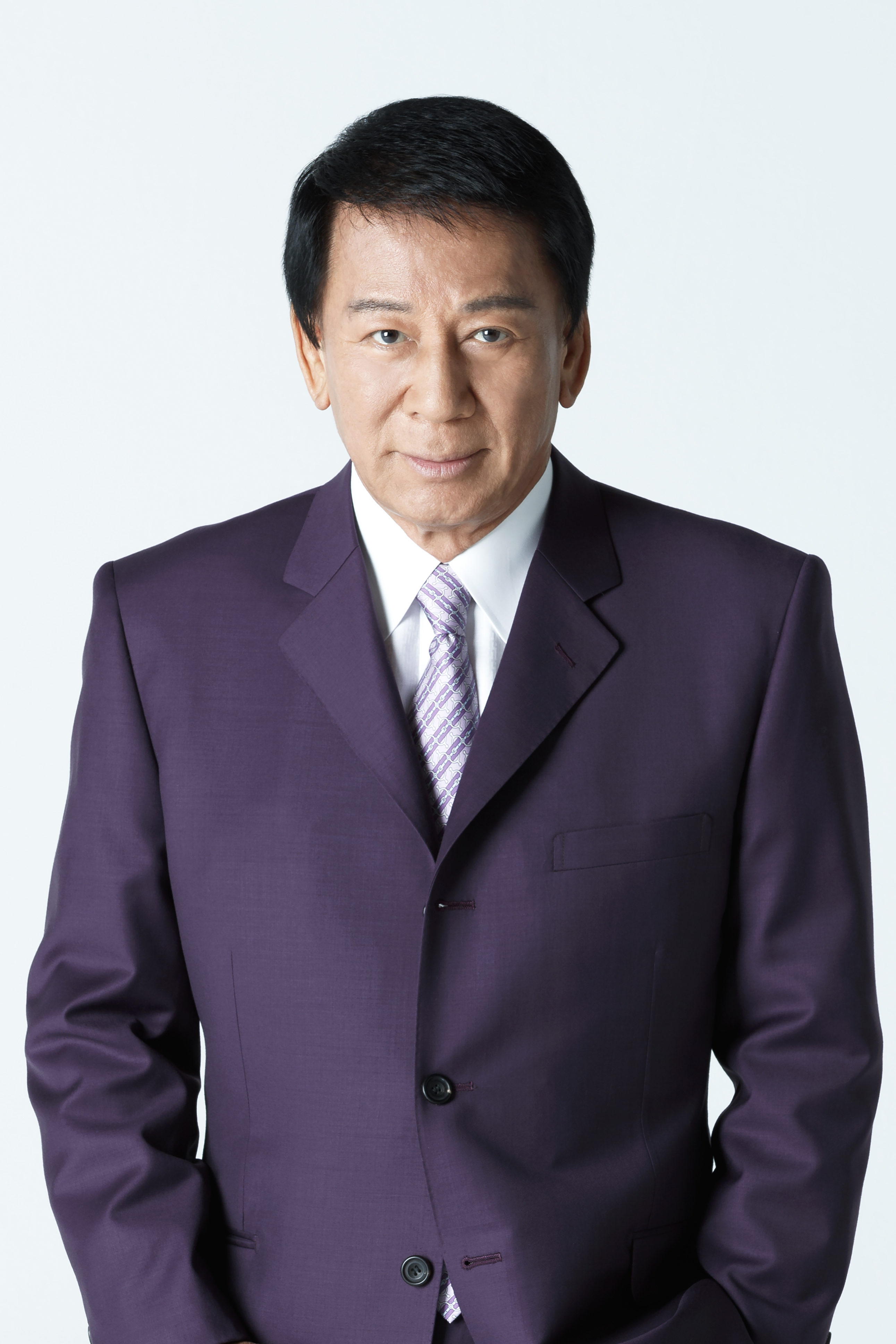 Ryotaro Sugi, received the Person of Cultural Merit on November, 2016.